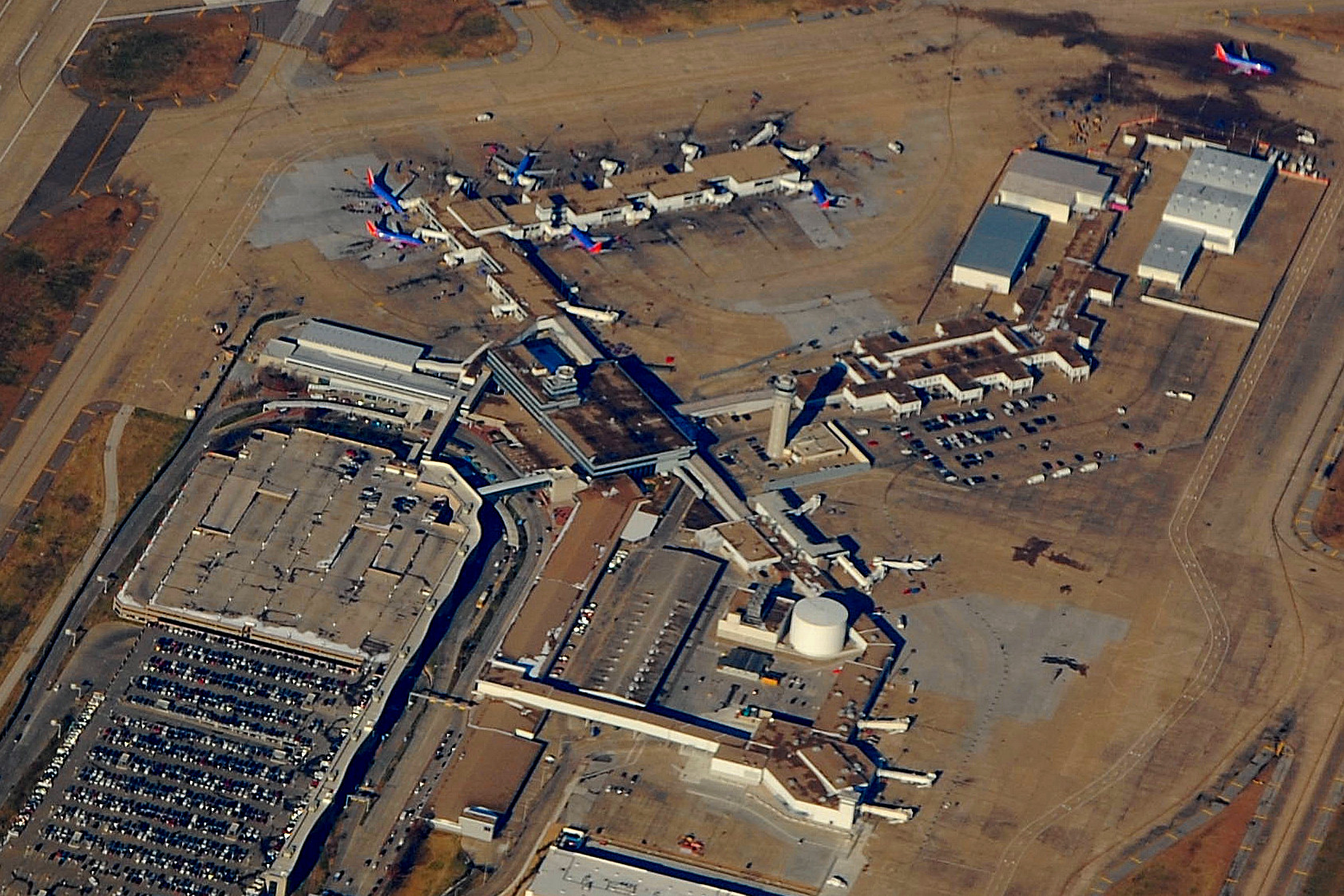 Aerial view of passenger terminal at Dallas Love Field